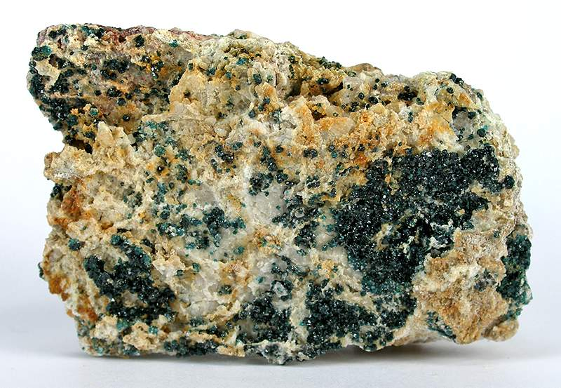 Herbertsmithite Locality: Dump Area west of Caracoles, Sierra Gorda District, Tocopilla Province, Antofagasta Region, Chile Size: small cabinet, 6.2 x 4.3 x 2.3 cm Herbertsmithite This very rare copper mineral is here present as beautiful sparkling microcrystals (though most are smaller than 0.2mm, some few are larger), like broken green glass sprinkled on a white matrix! Hundreds of crystals are present in several depositional layers in the top of this specimen.